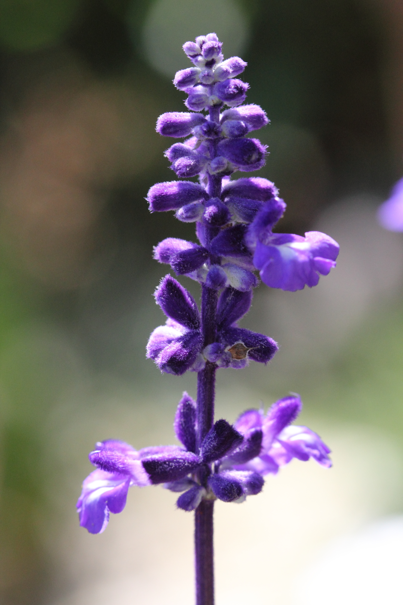 Mealy-cup sage blossom, seeds provided by Kiepenkerl, breed: Victoria Blue